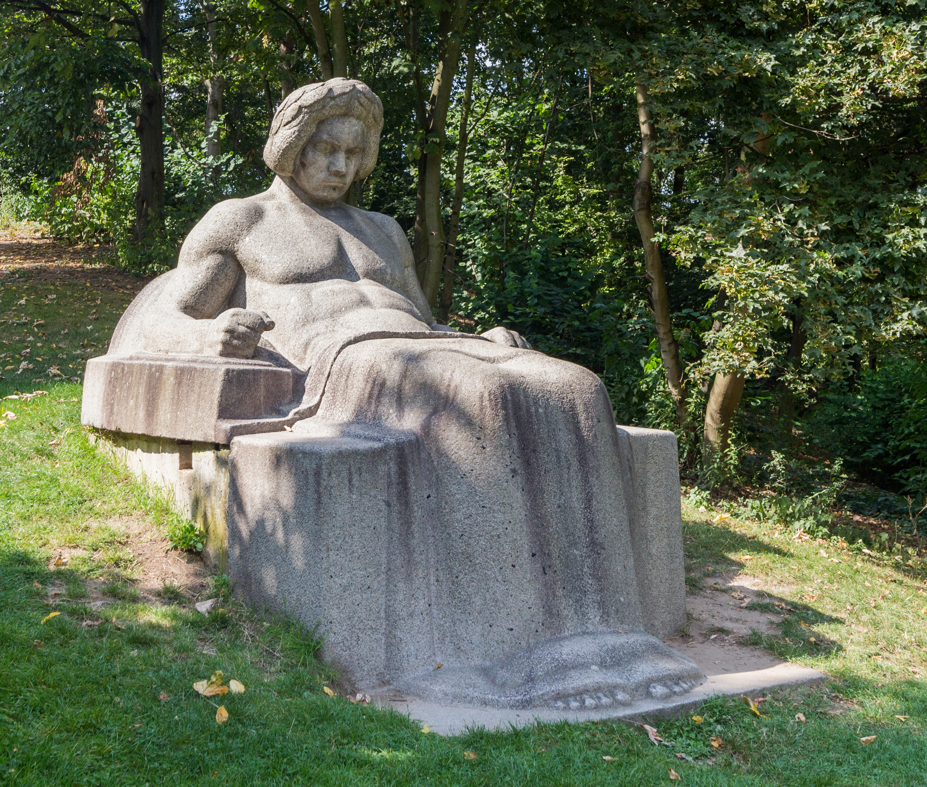 Beethoven memorial, Rheinaue, Bonn